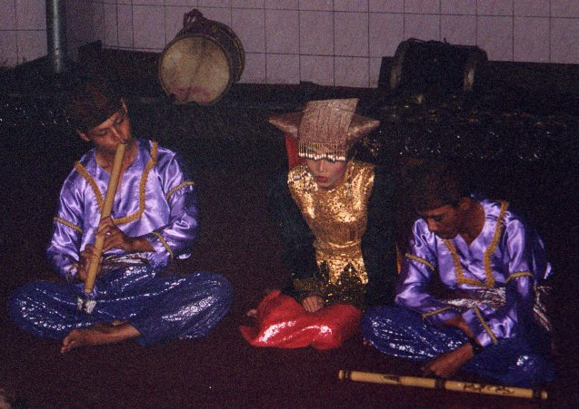 Photo taken by MichaelJLowe of a Saluang performance in Bukittinggi.